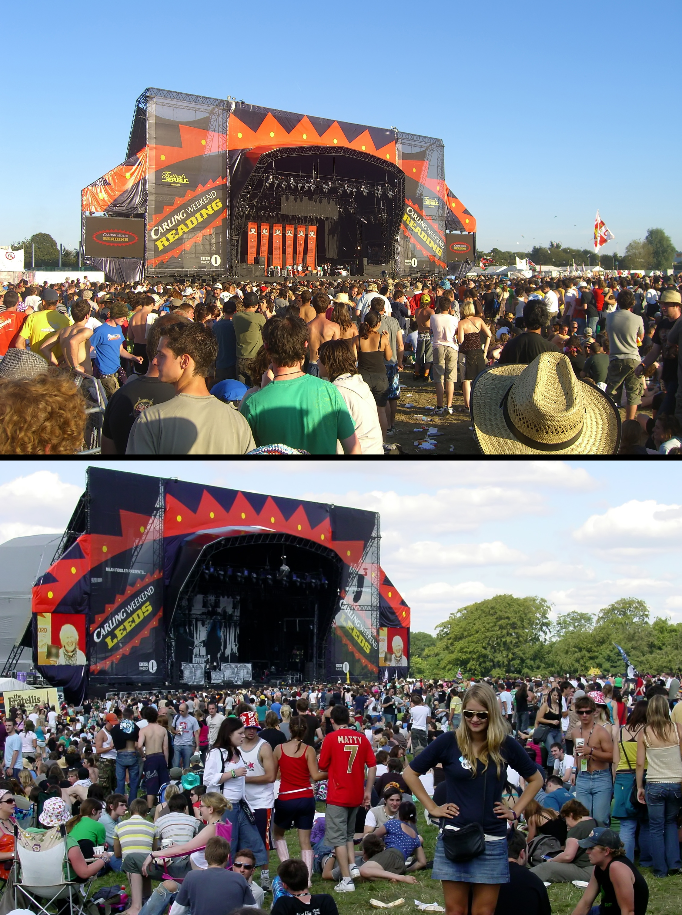 This image shows Reading Festival in 2007 (Top) and Leeds Festival in 2006 (Bottom)